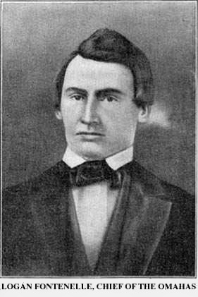 Logan Fontenelle, original painting at Josyln Art Museum